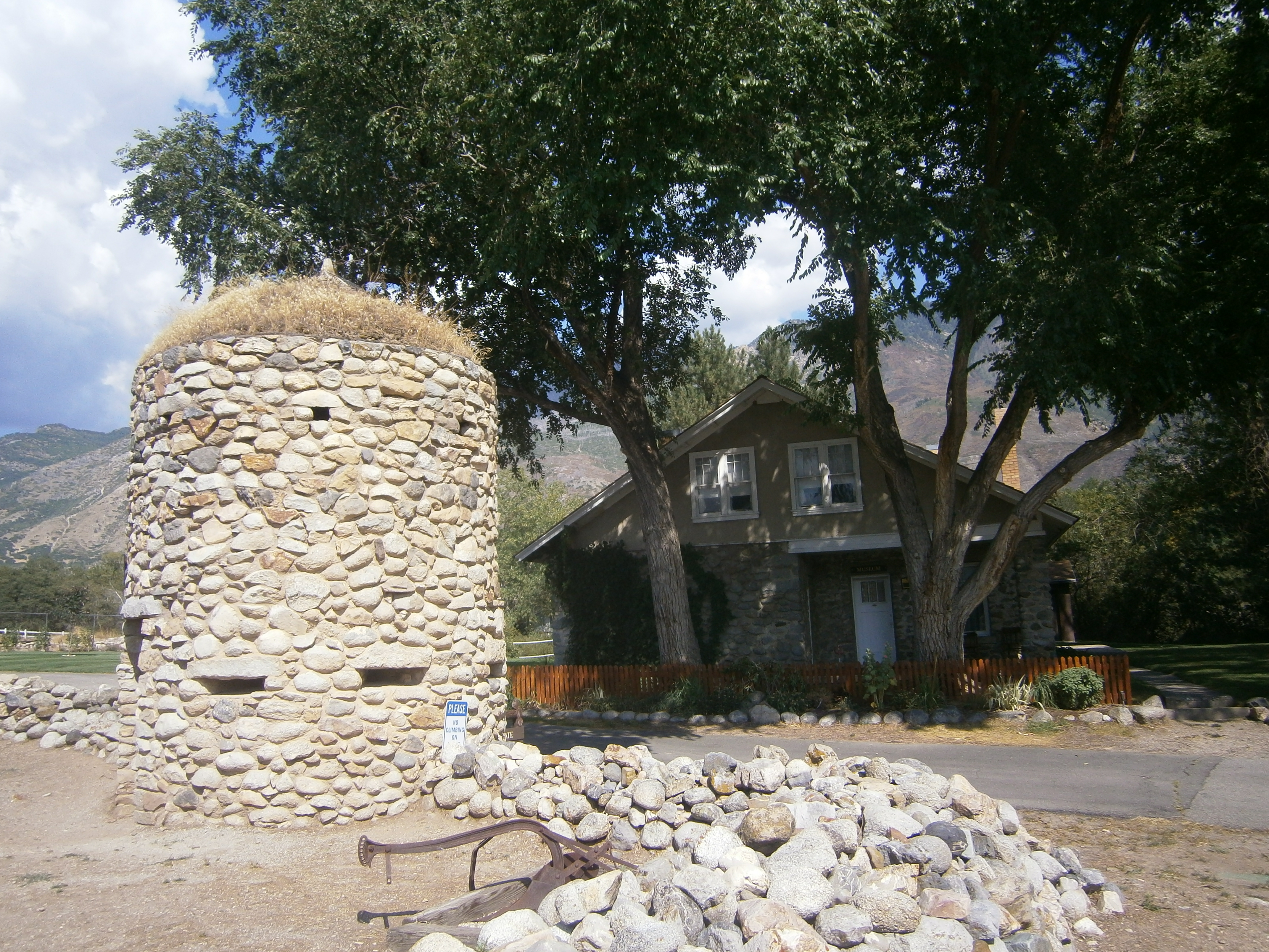 The Moyle House and Indian Tower, a historic property in Alpine, Utah, United States.